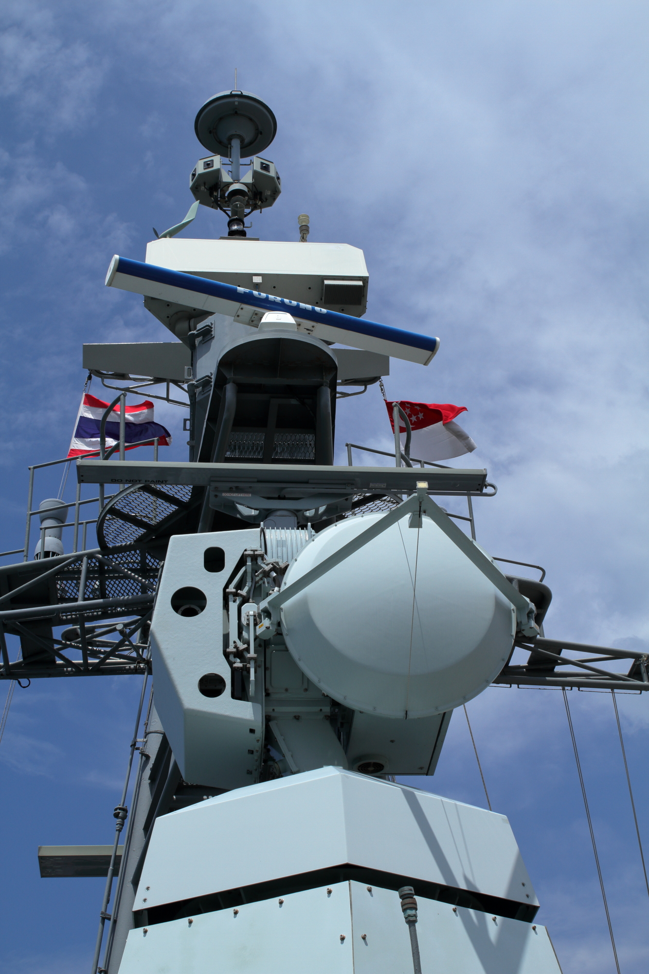 Saab Sea Giraffe surveillance radar, Furuno navigation radar and Saab CEROS 200 fire control system on board HTMS Naresuan